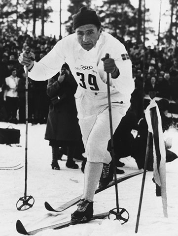 Nils "Mora-Nisse" Karlsson at the 1952 Winter Olympics.